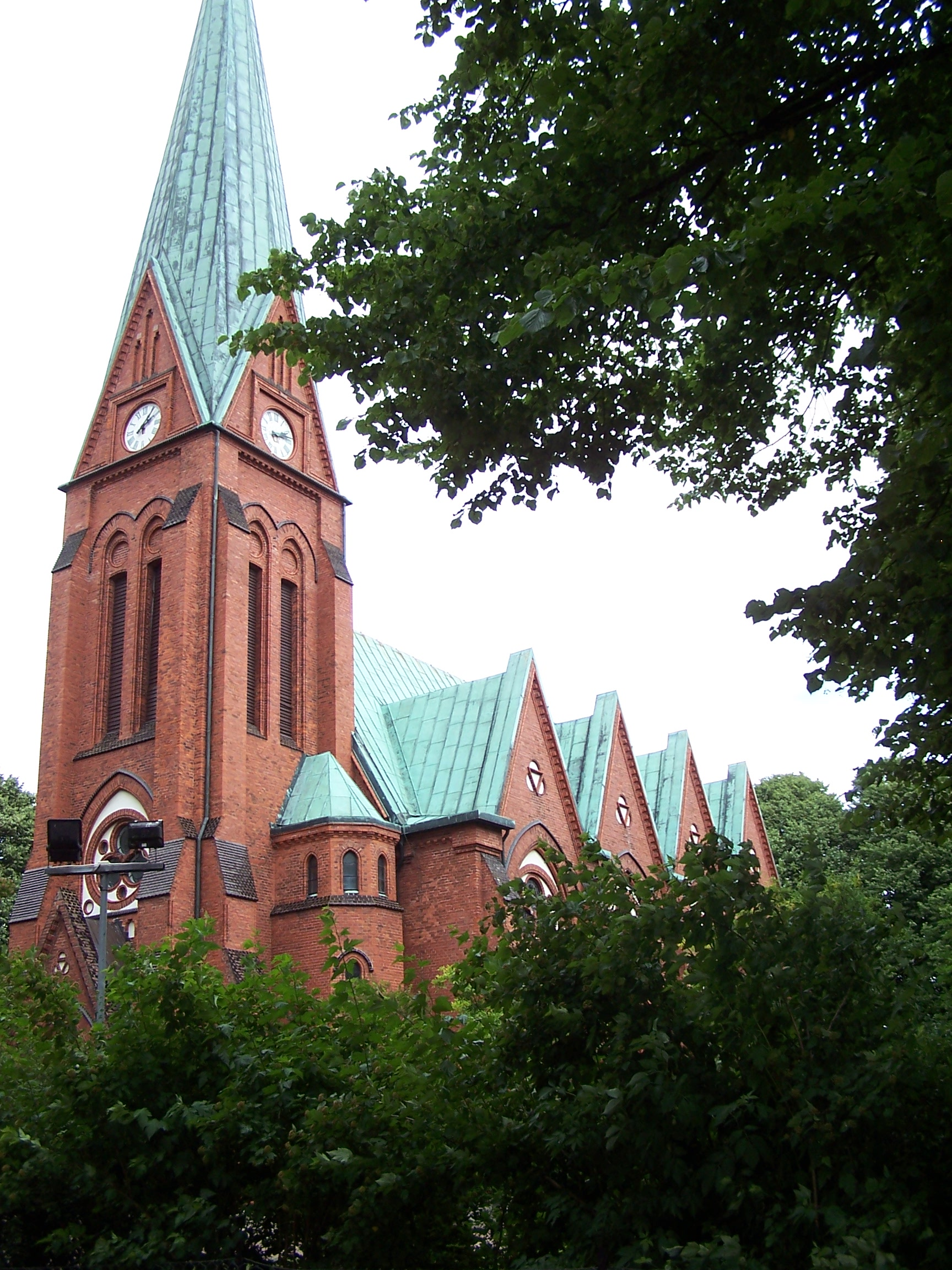 Exterior of Bunkeflo church, Bunkeflo parish.